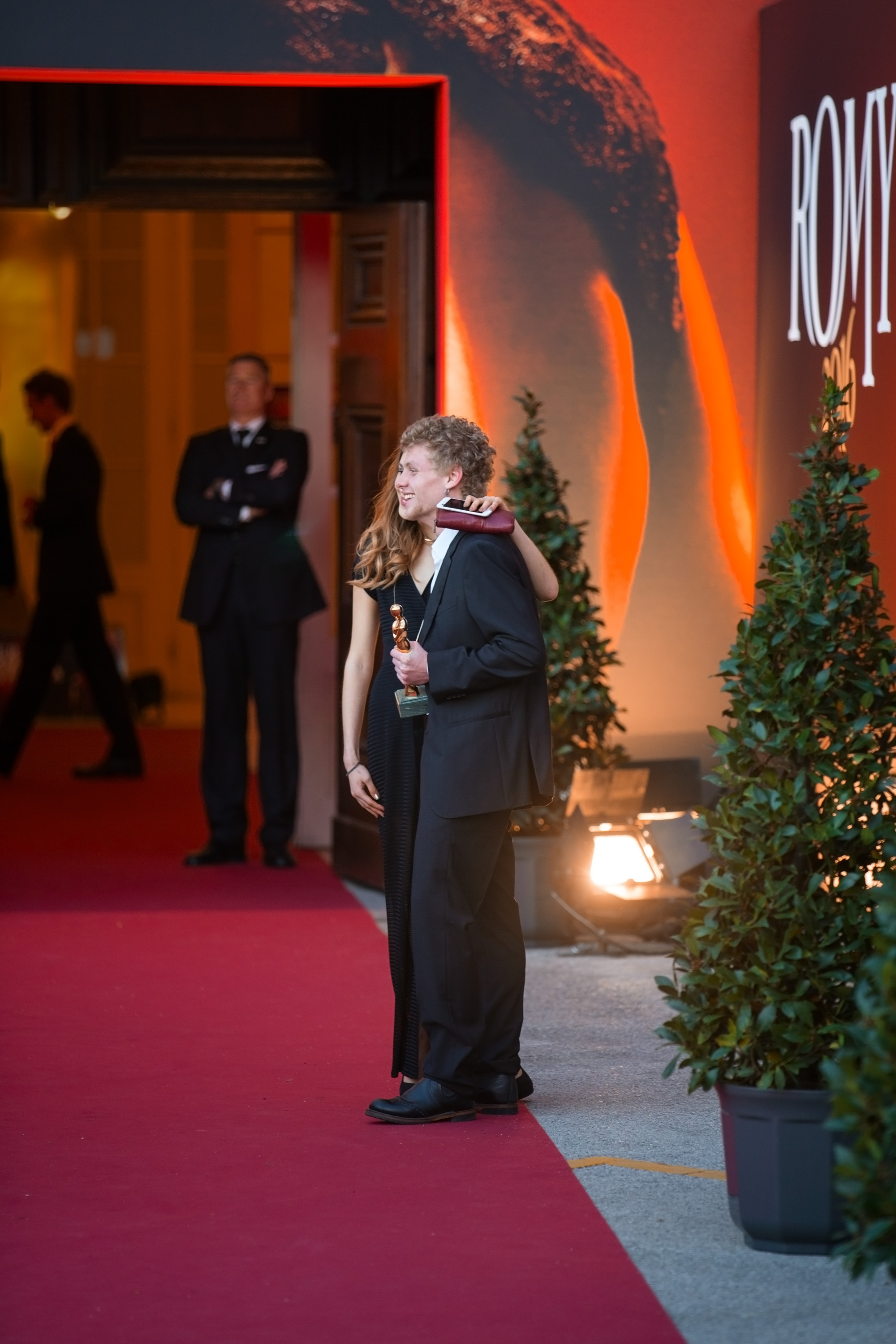 Johannes Nussbaum on the red carpet of the Romy TV awards 2016 at Hofburg Palace in Vienna, Austria.